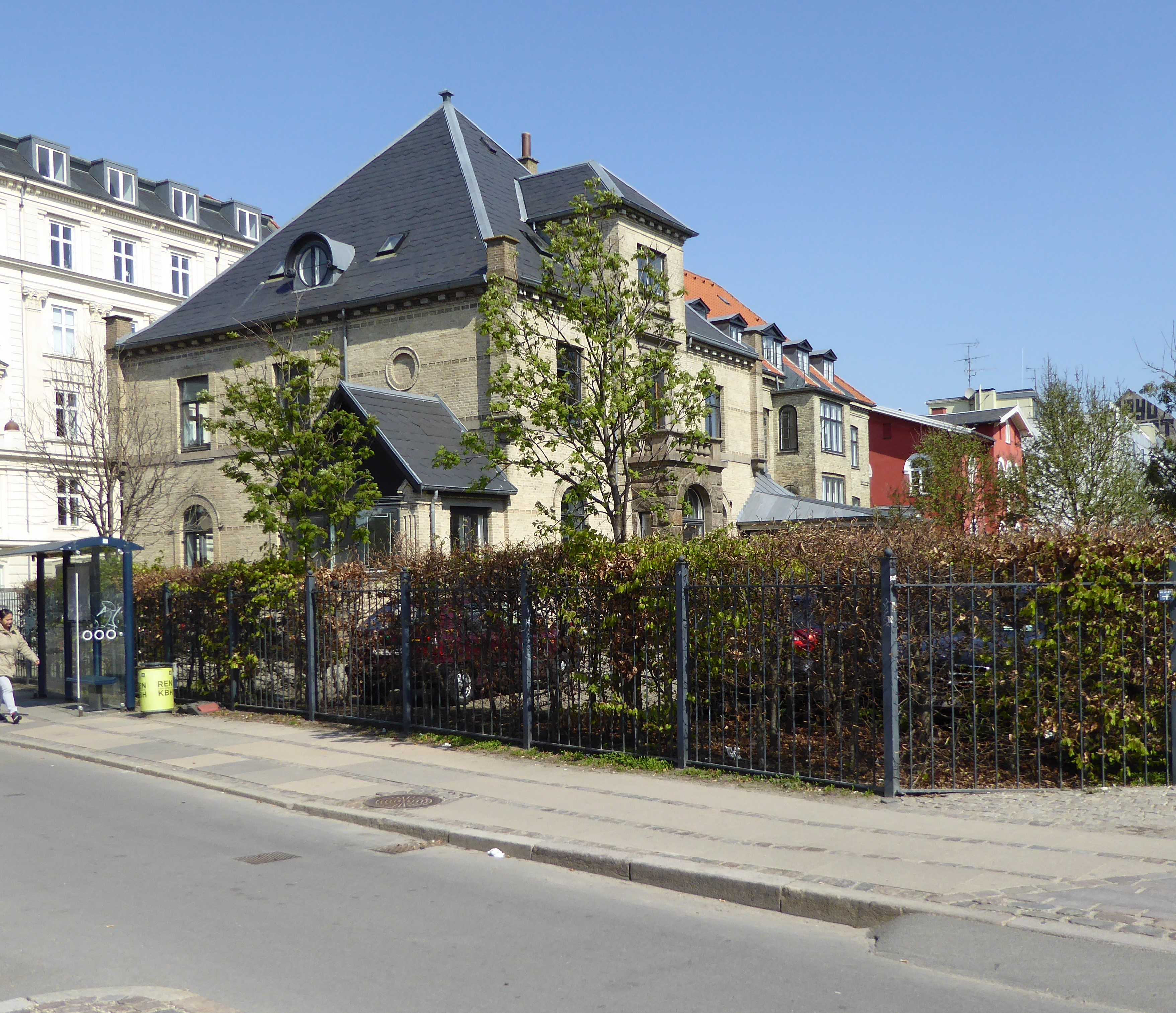 Listed house at Ewaldsgade 9 in Nørrebro, Copenhagen, Denmark